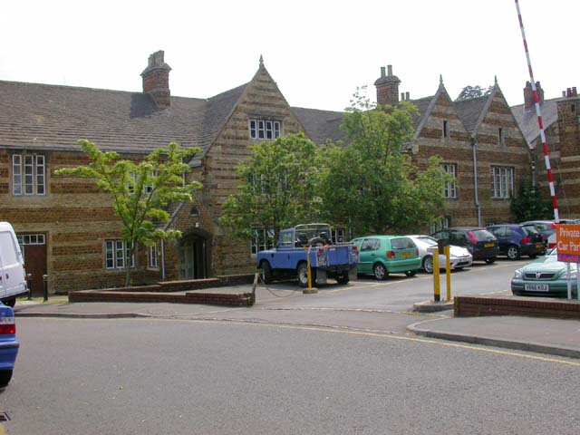 Croyland Abbey, Wellingborough. The monks of Croyland Abbey in Lincolnshire were granted farmland here and built an abbey on the site in the C10th. The current building is mainly C17th and is used as office space by the Borough Council.